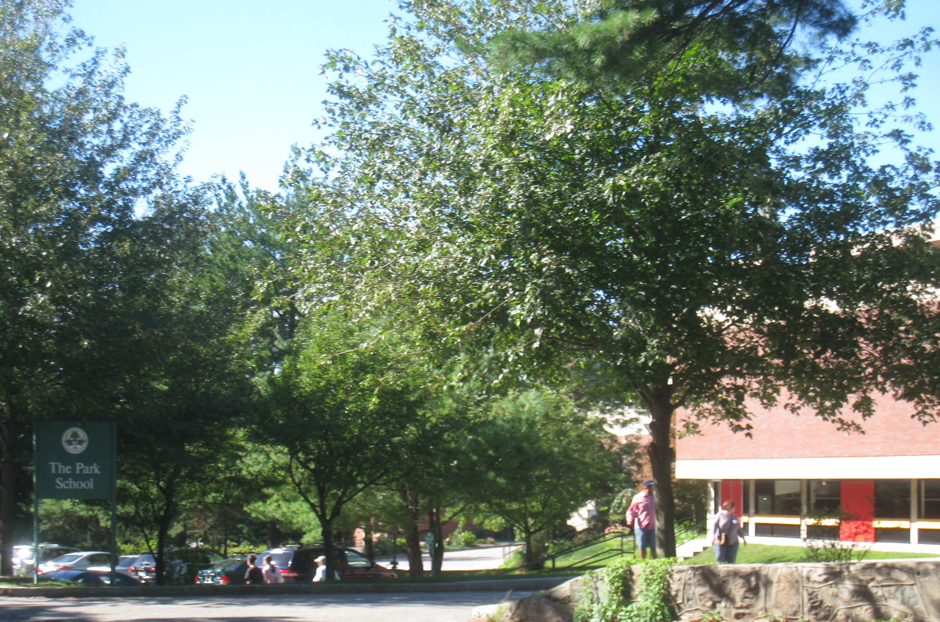 The Park School, 171 Goddard Avenue, Brookline, Massachusetts, USA.